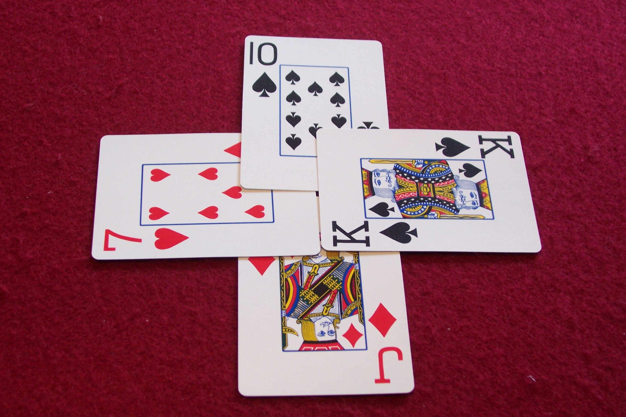 A typical trick played in a Whist-type game. Cards are from a Bicycle Jumbo Index Poker deck.